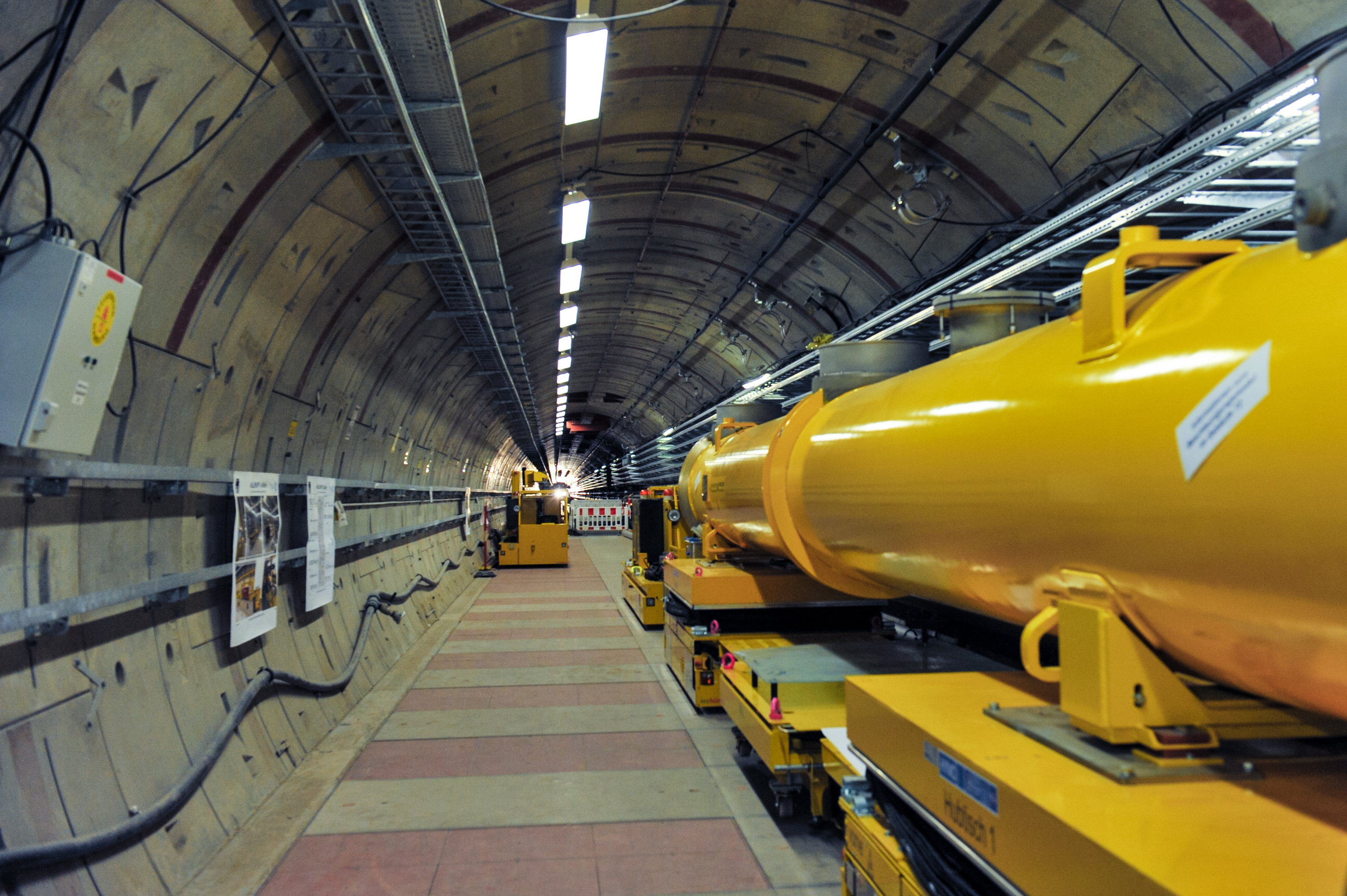 European XFEL accelerator construction in a tunnel starting at DESY in Hamburg